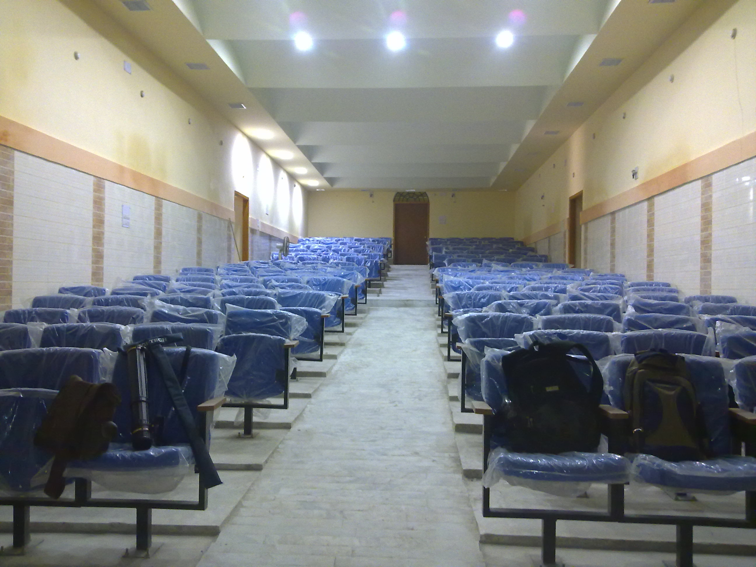 AC audi